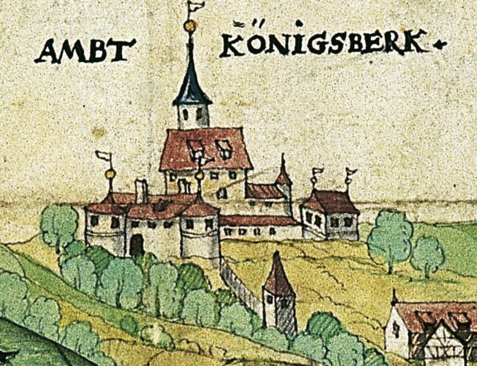 A view of the castle of Königsberg, Bavaria.